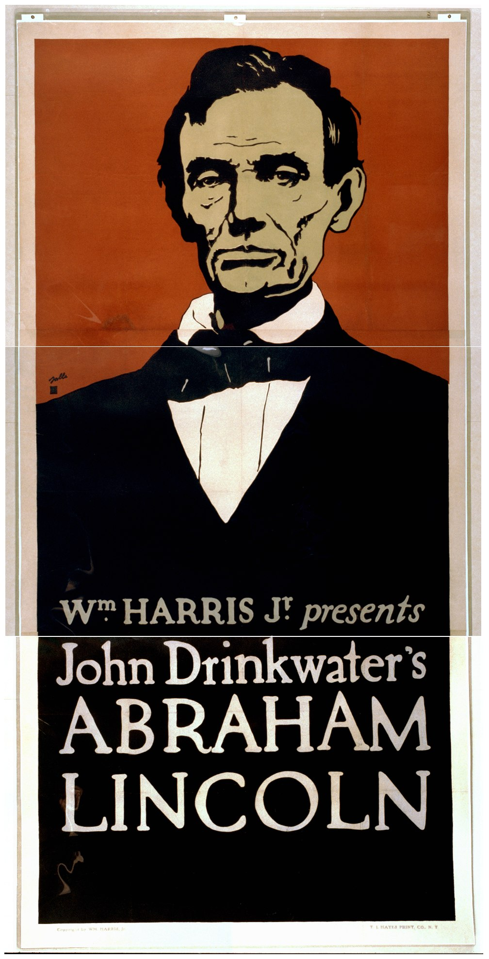 Title: Wm. Harris, Jr. presents John Drinkwater's Abraham Lincoln Abstract/medium: 1 print : color lithograph ; sheet 210 x 103 cm. (poster format)